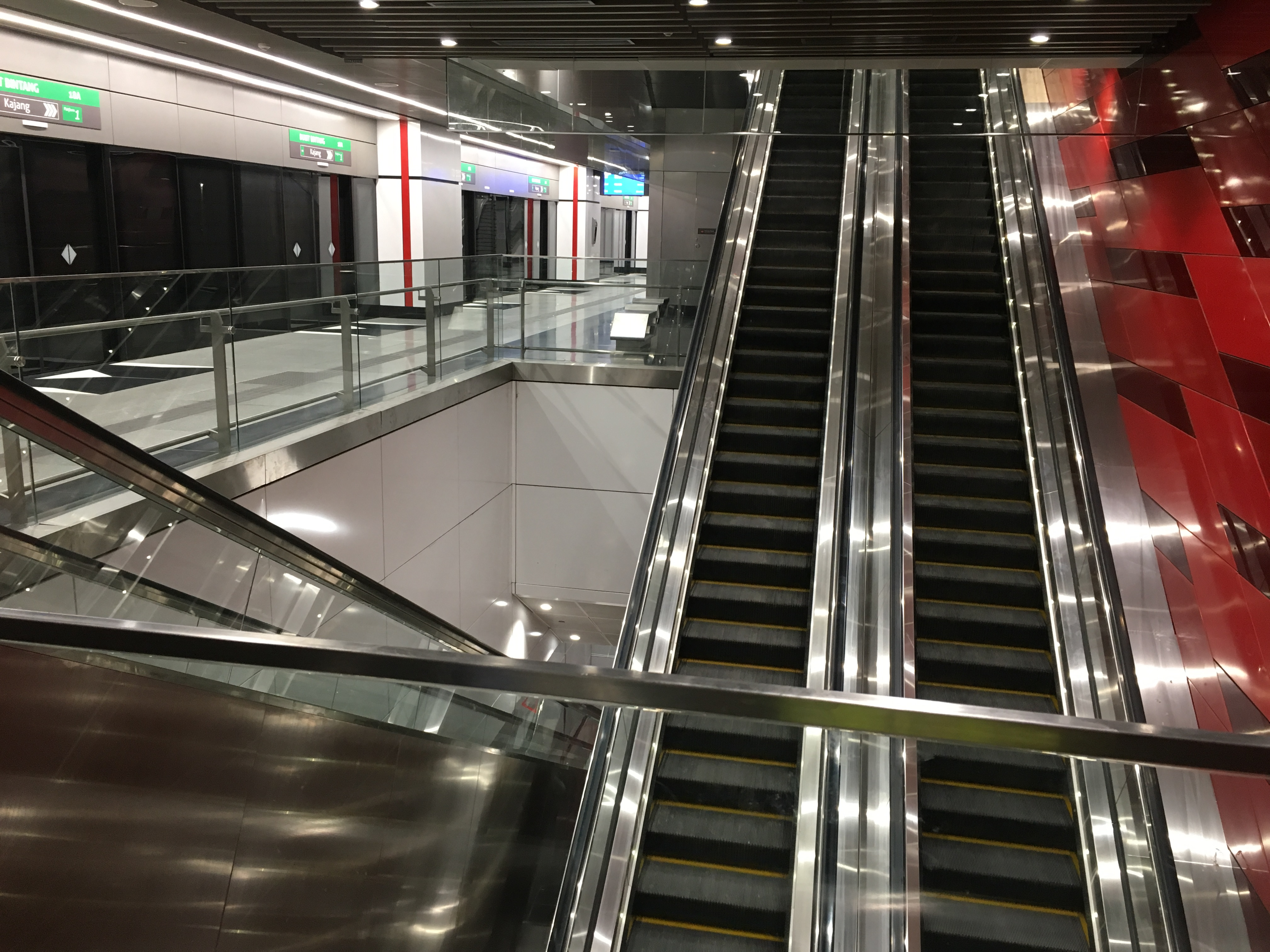 View of Platform 1 (Kajang-bound) and the escalator from the Concourse Level to Platform 2 (Sungai Buloh-bound).